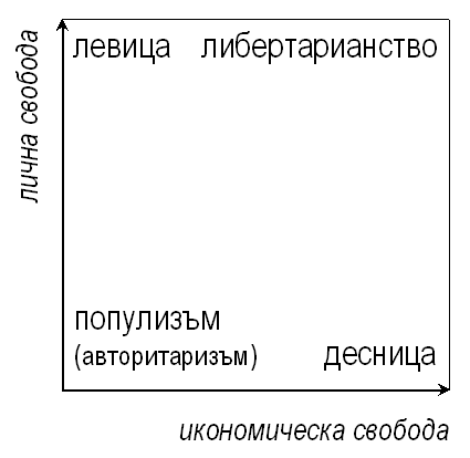 Nolan Chart in Bulgarian